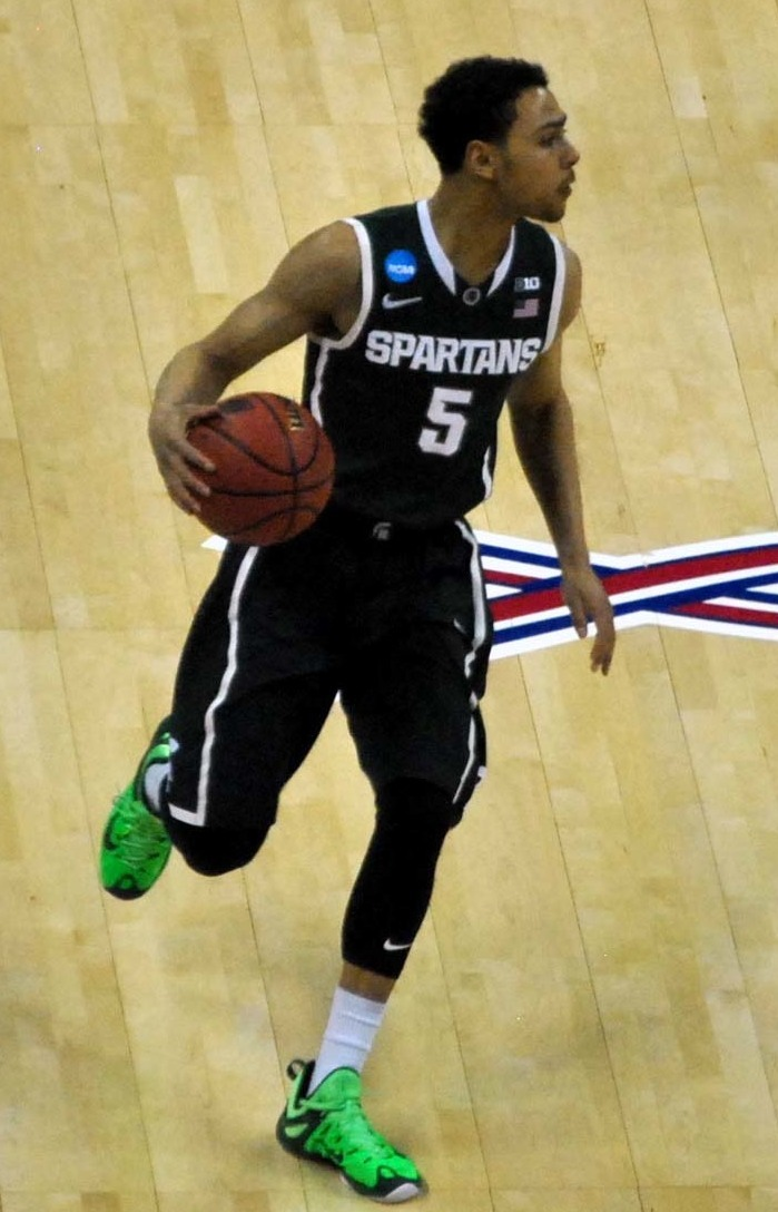 Bryn Forbes handles the ball for the Spartans